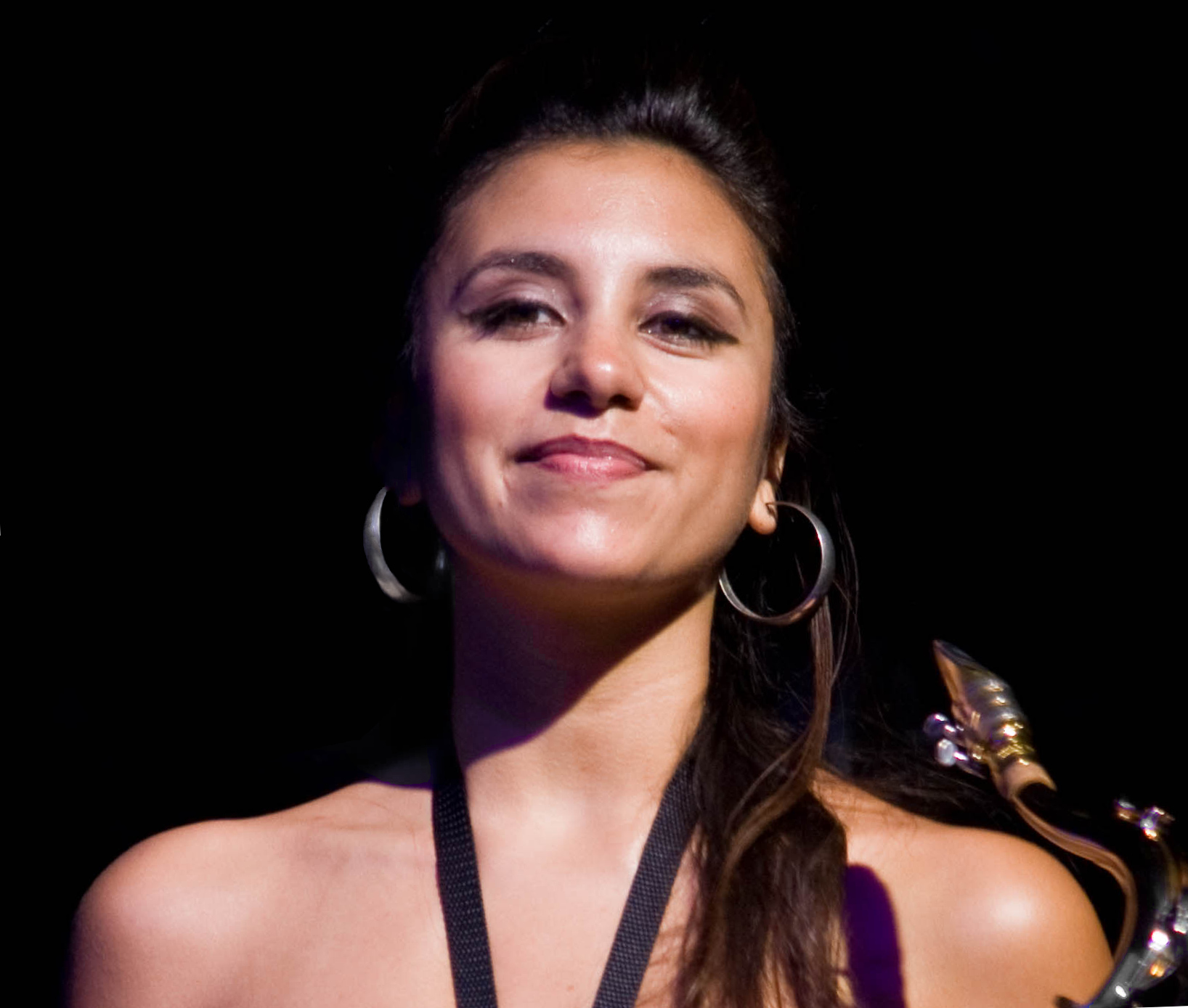 Picture of singer Jessy J. Original author is Flickr user GrandpaDoug